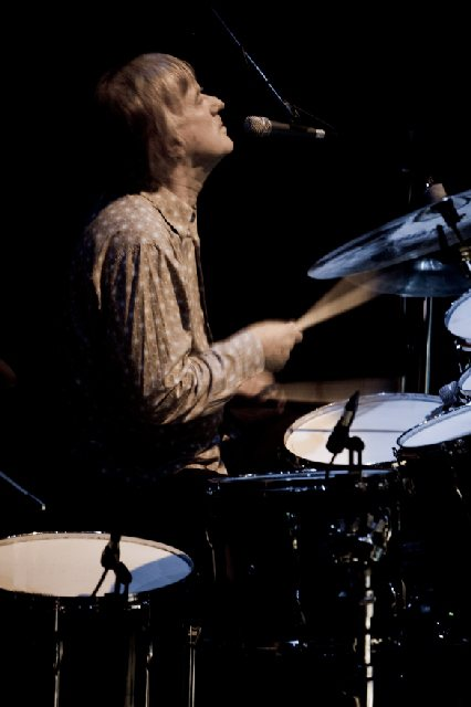 Jim McCarty Basingstoke 2008 By Marc Lacaze